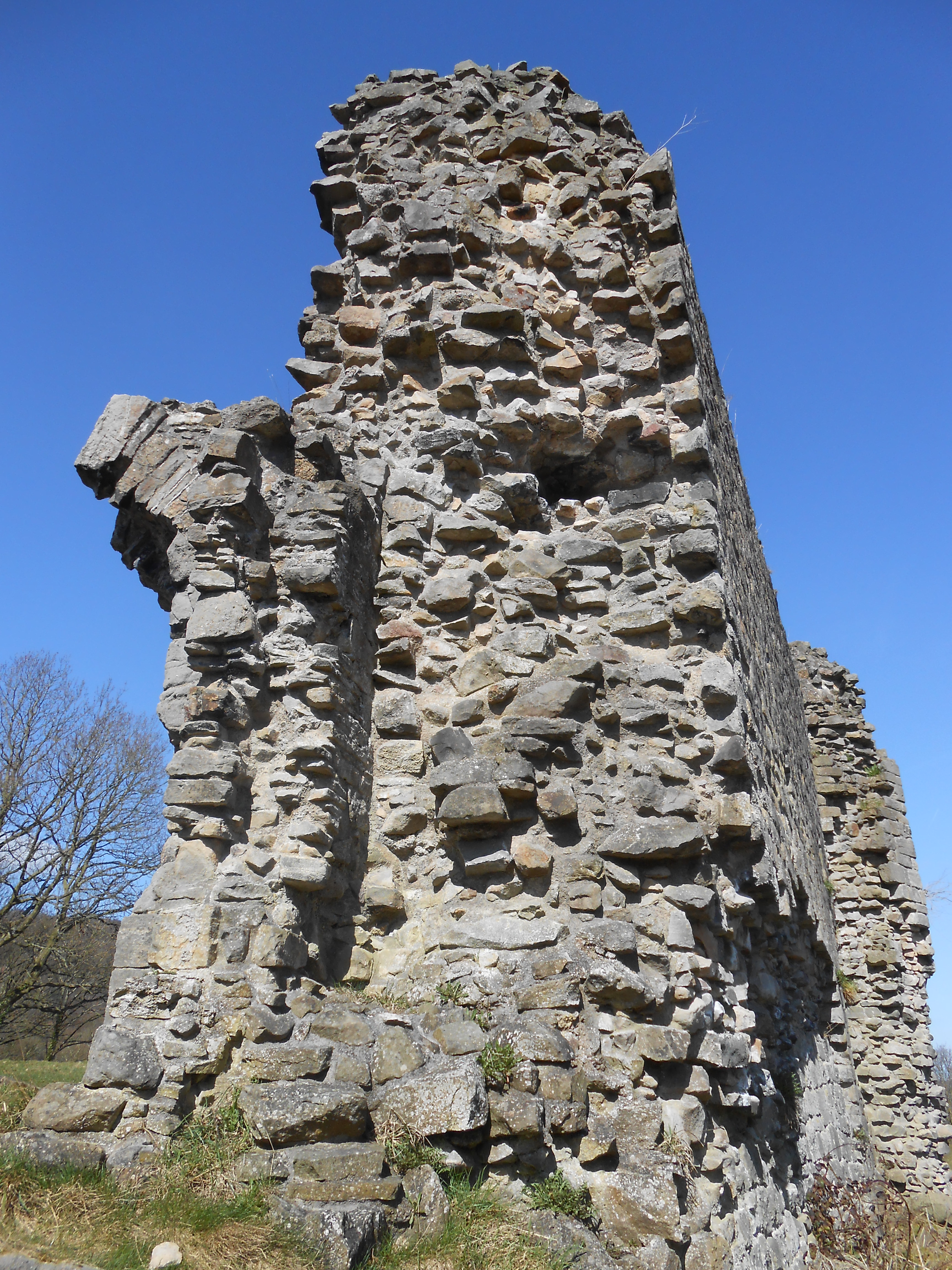 Photo taken at Caergwrle Castle, Flintshire, Wales.